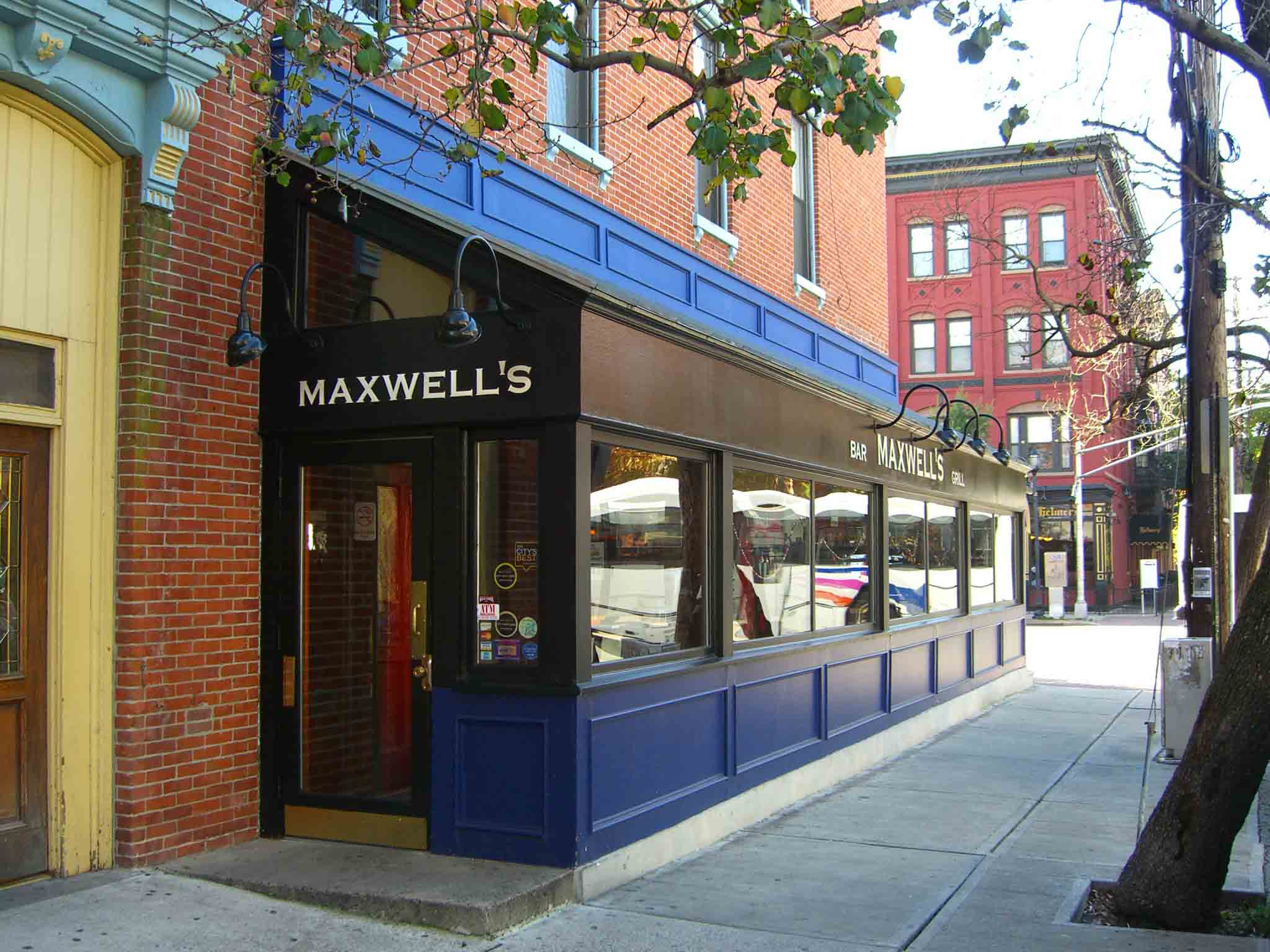 The 11th Street entrance to Maxwell's, a music club in Hoboken, New Jersey, as seen on November 7, 2011. This photo was created by Luigi Novi. It is not in the public domain, and use of this file outside of the licensing terms is a copyright violation.